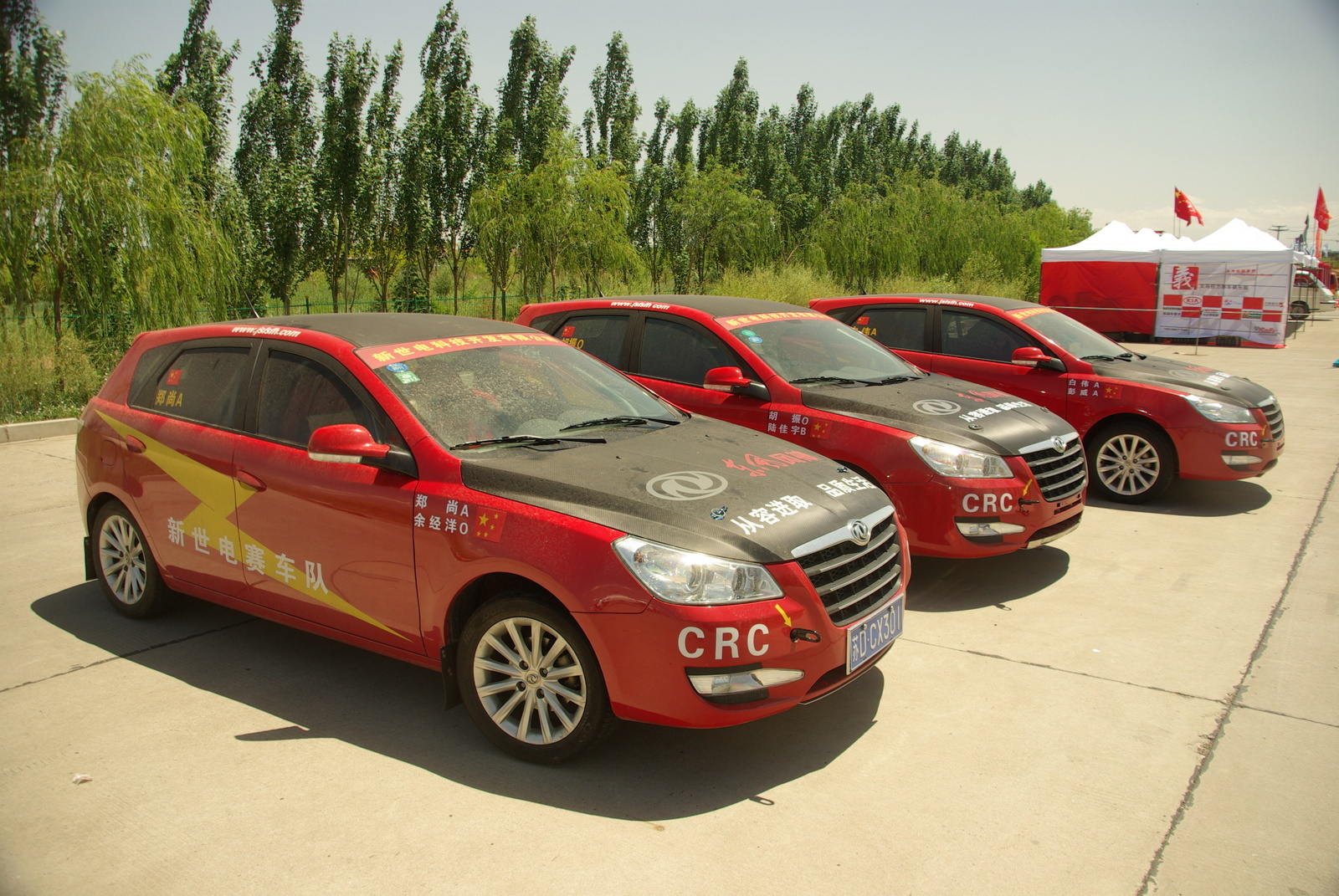 Dongfeng H30 as a racing car -- Zhangye CRC 2011